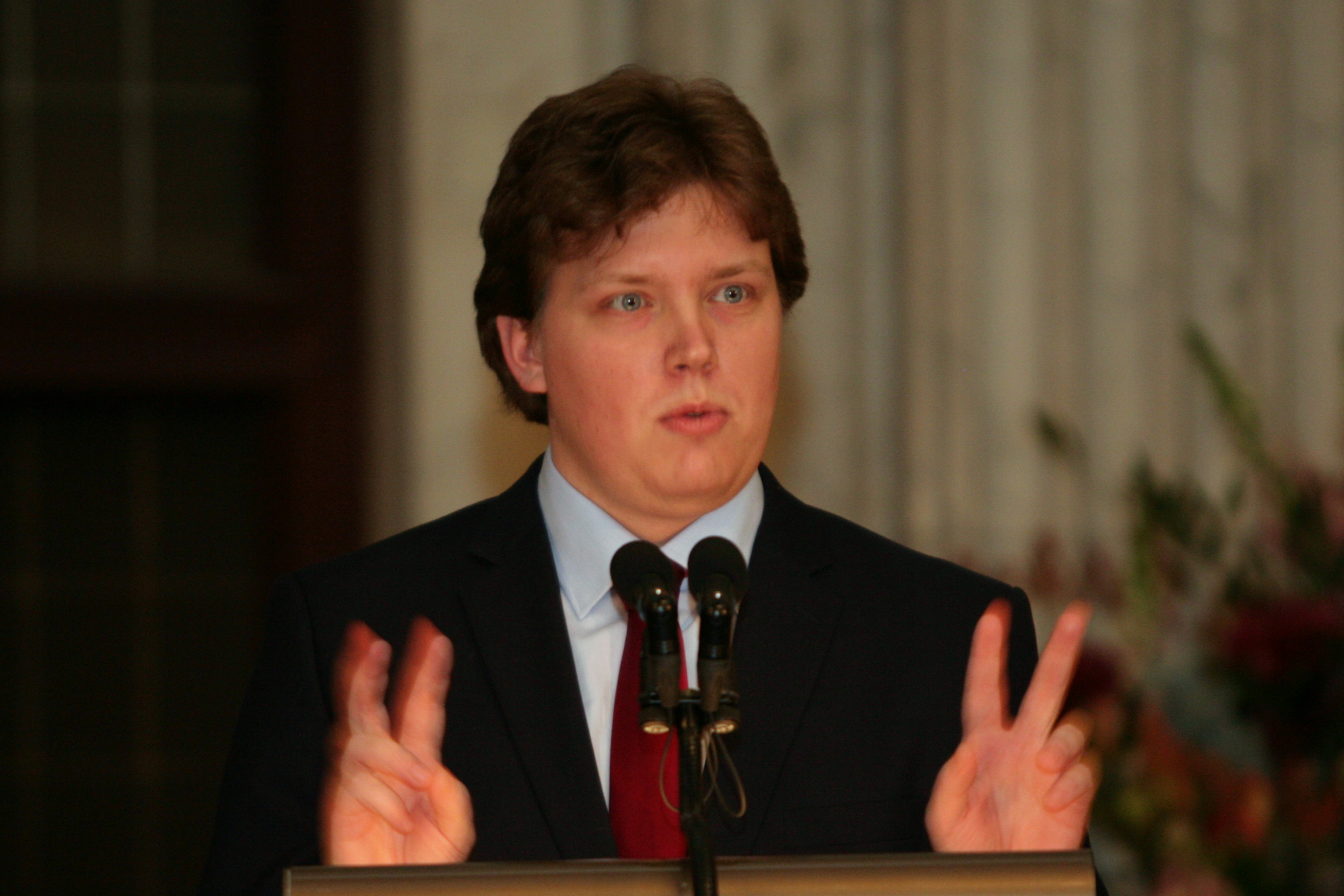 Erasmus Prize 2015, awarded to the Wikipedia community by Stichting Praemium Erasmianum on 25 November 2015